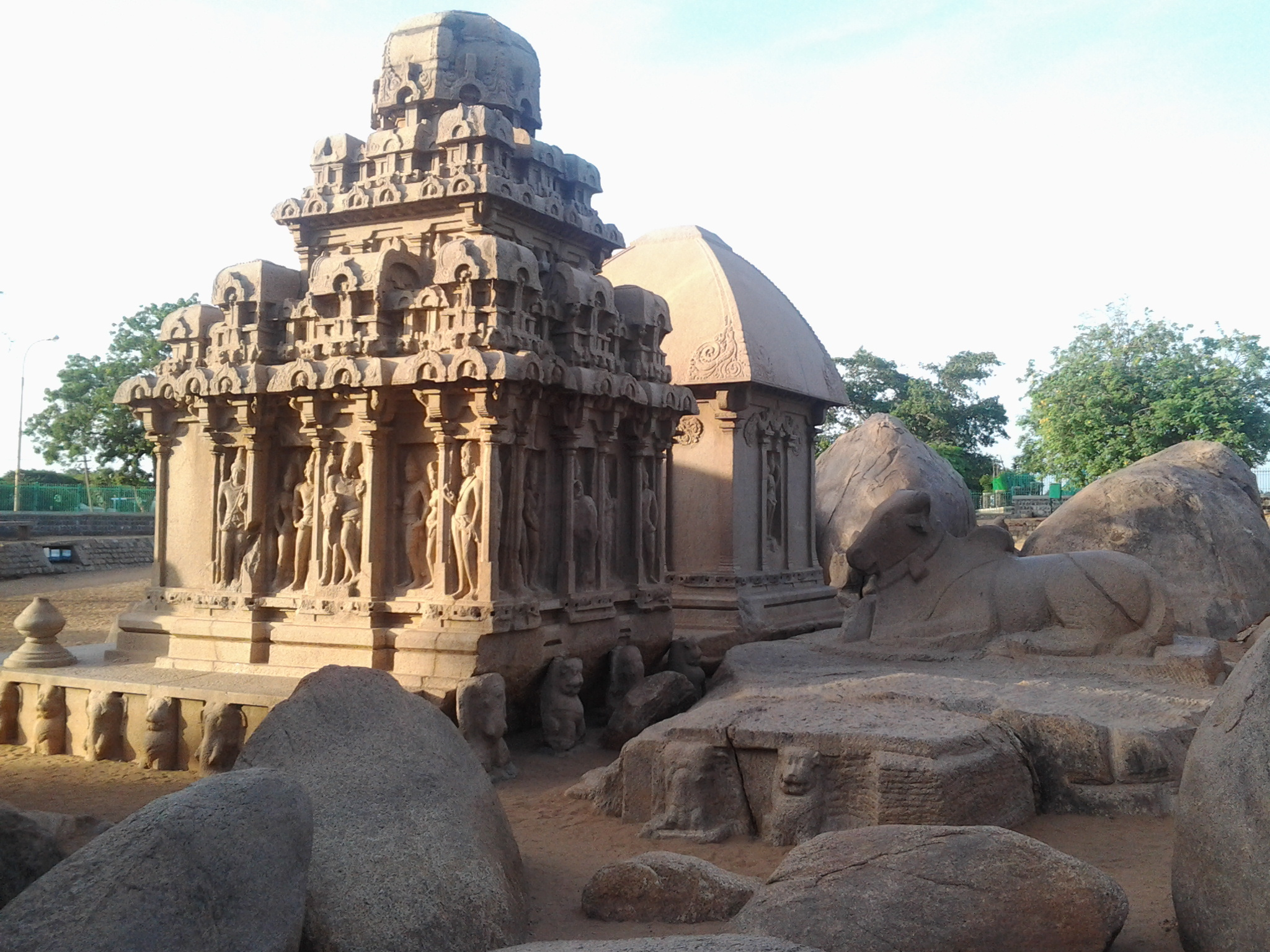 A perspective view of 'Arjuna Ratha', 'Draupathi Ratha' and 'Nandhi' (The Sacred Bull)